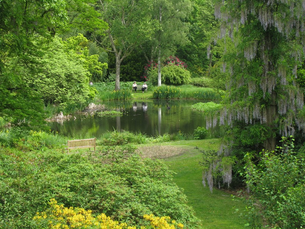 Arboretum_Kalmthout,_20090521.jpg